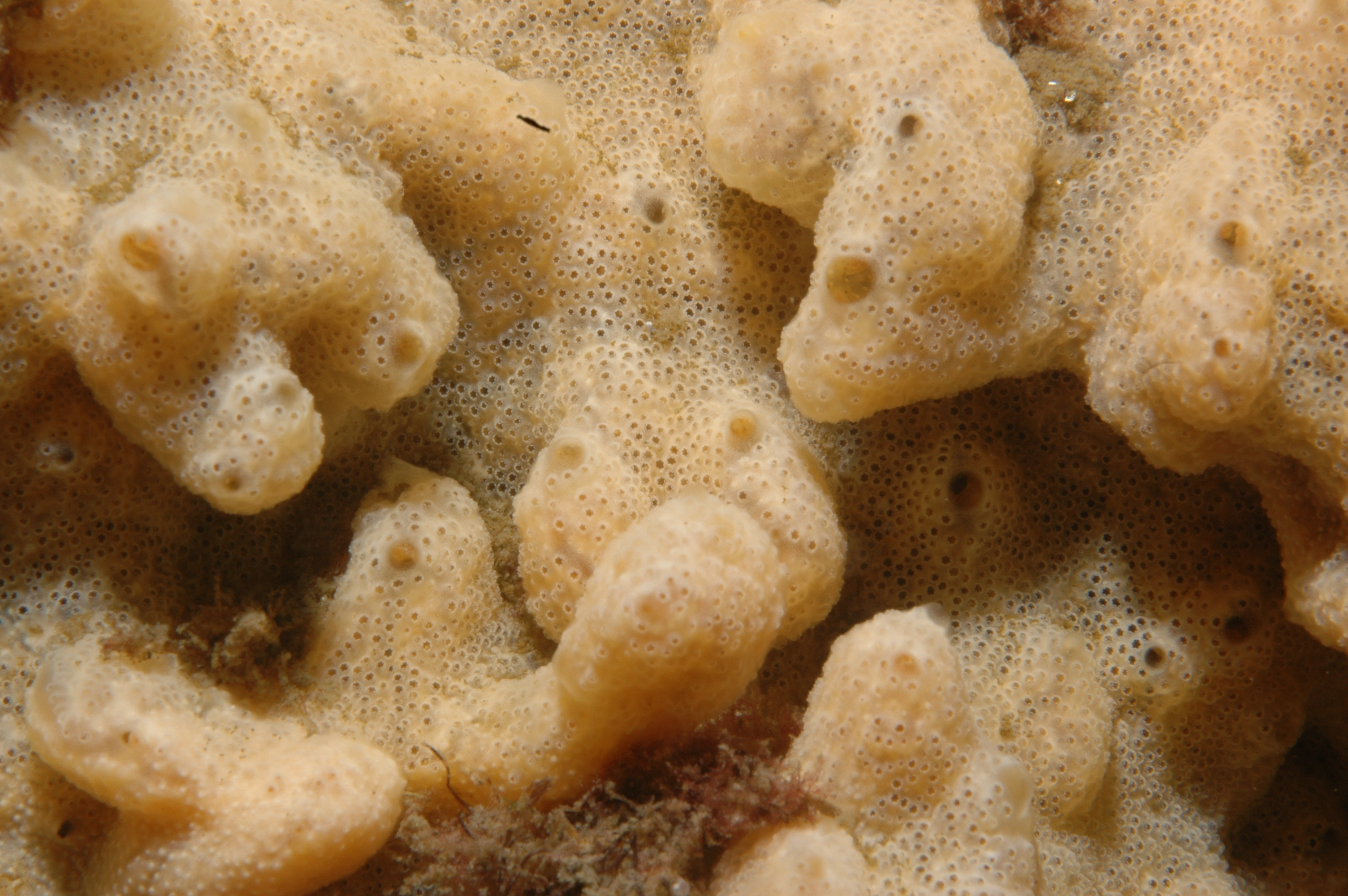 Image DB_STB_DSC3770. Tunicate colony of Didemnum vexillum. Large openings are cloacal apertures; brown material in them is interpreted to be fecal matter in cavities below the apertures. Sandwich town beach (41 deg 46.11 min N lat, 70 deg 28.95 min W lon). Water depth 4 m. November 7, 2006. Observers: Dann Blackwood (USGS) and Sandra Baldwin (USGS). Photo credit: Dann Blackwood (USGS). Location no. 80.